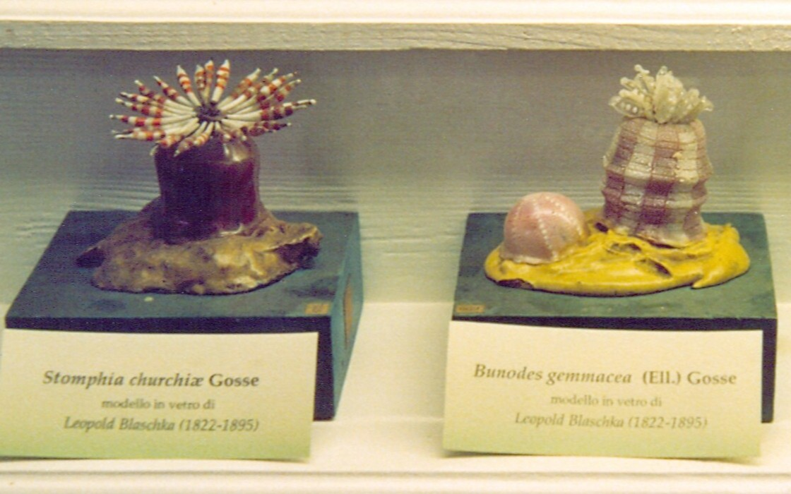 Sea anemones, glass objects by Leopold Blaschka (1822 - 1895), Museo di Storia Naturale e del Territorio, Calci (Province Pisa), Italy On the left: Stomphia churchiae Gosse (Syn. Stomphia coccinea) On the right: Bunodes gemmacea (Ellis) Gosse. The modern accepted name for Bunodes gemmacea is Aulactinia verrucosa. See Ocaña & Den Hartog p.36 and WoRMS.